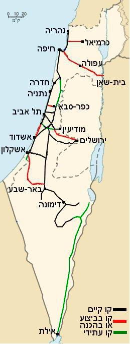 Map of Israel Railways' Network